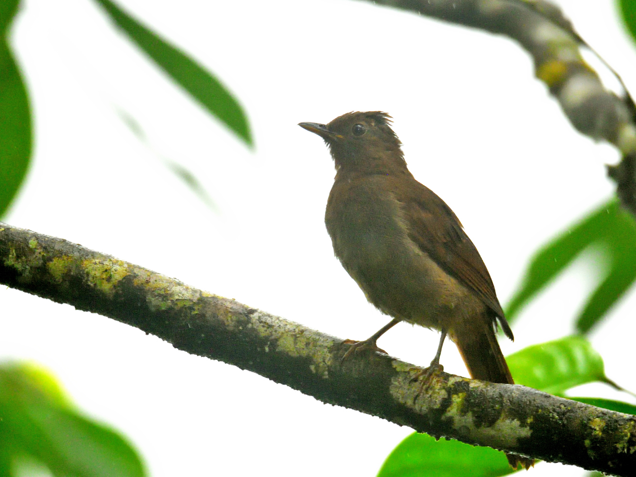 Rufous-brown Solitaire Cichlopsis leucogenys chubbi, Mashpi - Amagusa Reserve, Ecuador